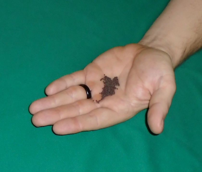 Mustard seeds